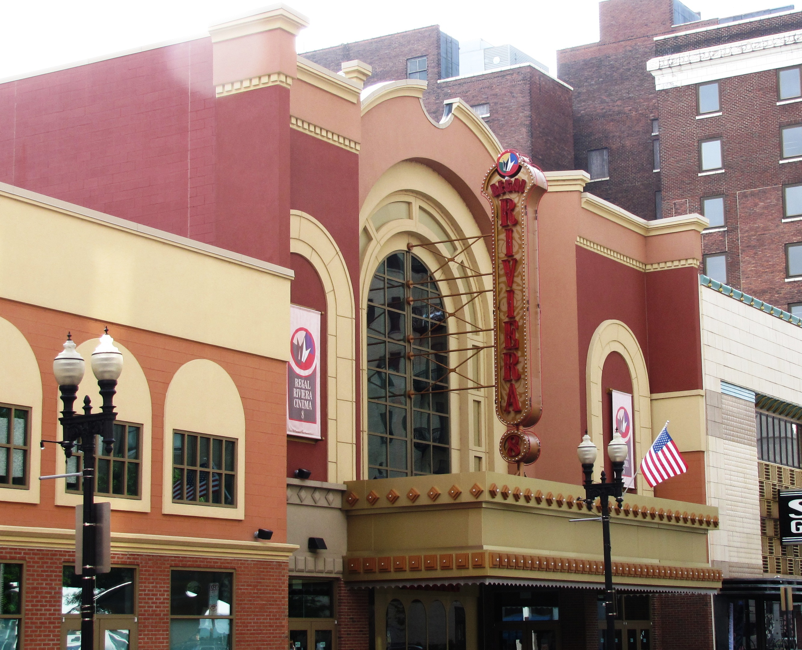 The Riviera Theatre (510 S. Gay St.) in Knoxville, Tennessee, USA, built in 2007 to replace an earlier theater at the site.